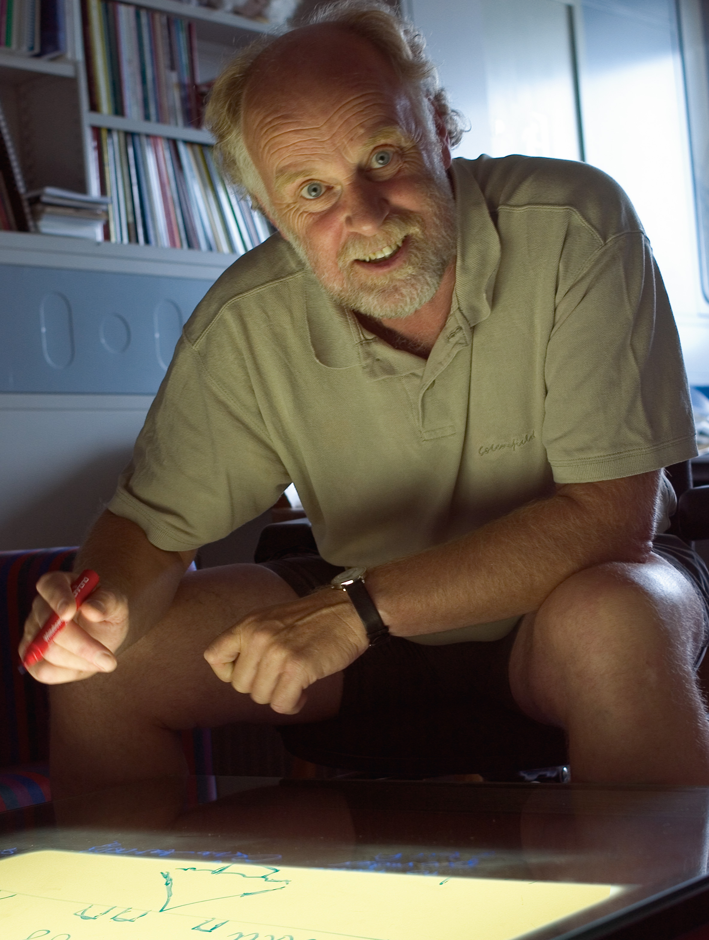 Frank Grosveld, Spinoza laureate in 1995. Photograph by Ivar Pel (NWO)